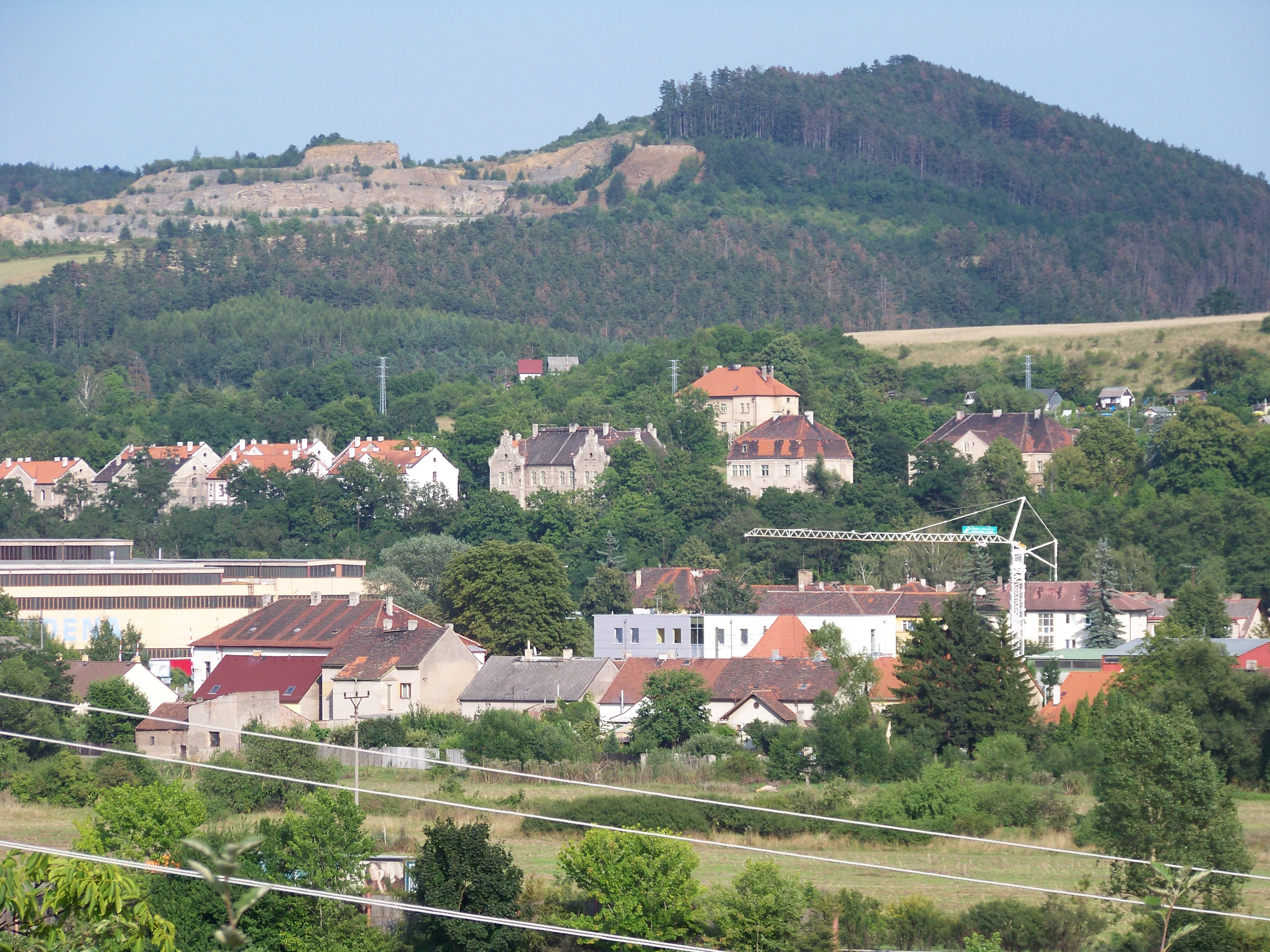 Králův Dvůr-Karlova Huť, Beroun District, Central Bohemian Region, the Czech Republic. - Google Maps - Google Earth